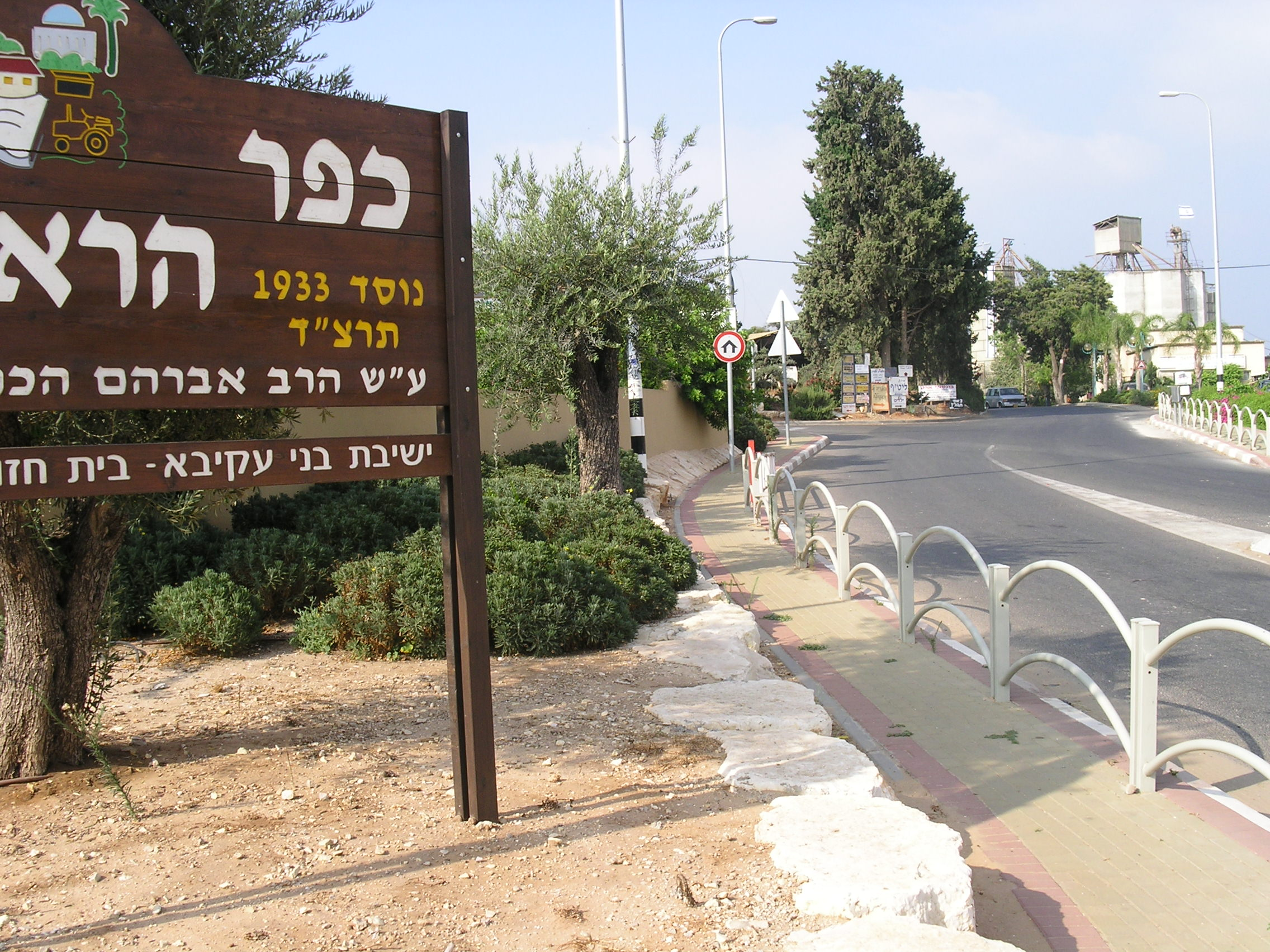 The admission of Kefar Haroe.